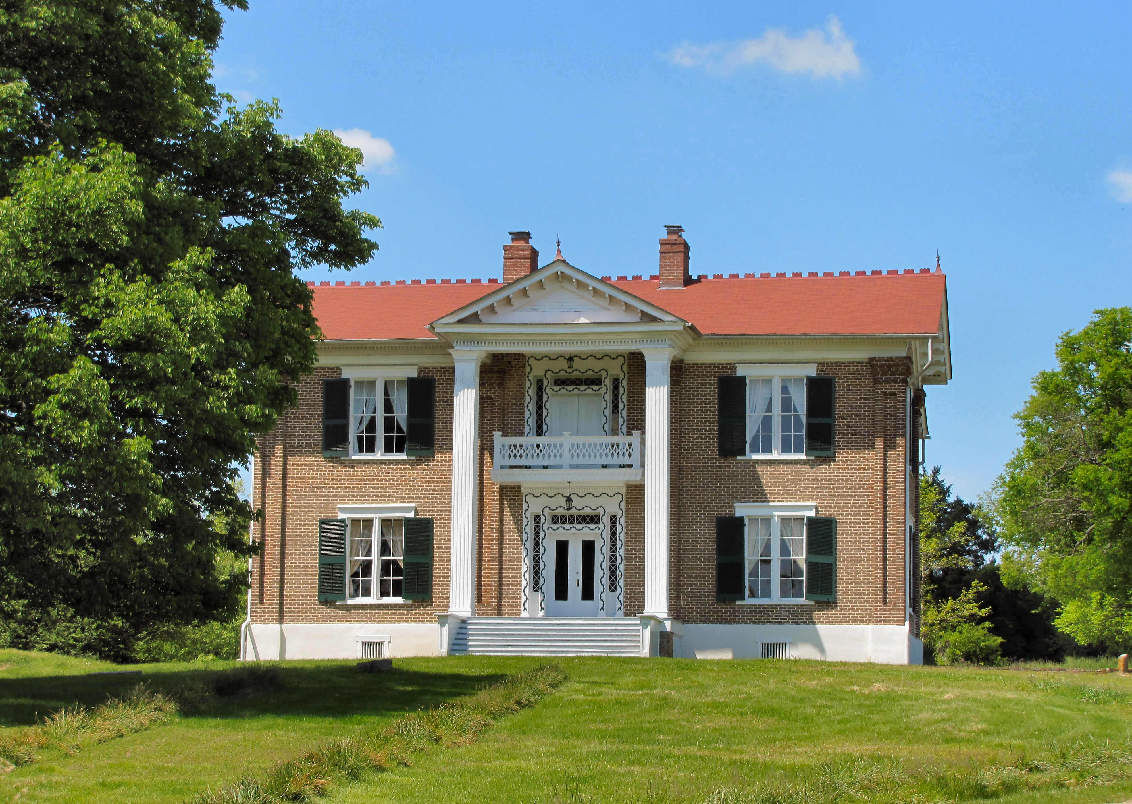 The Whitaker-Motlow House in Mulberry, Tennessee, United States. Built c. 1850, and partially rebuilt in 1909, the house is now listed on the National Register of Historic Places.